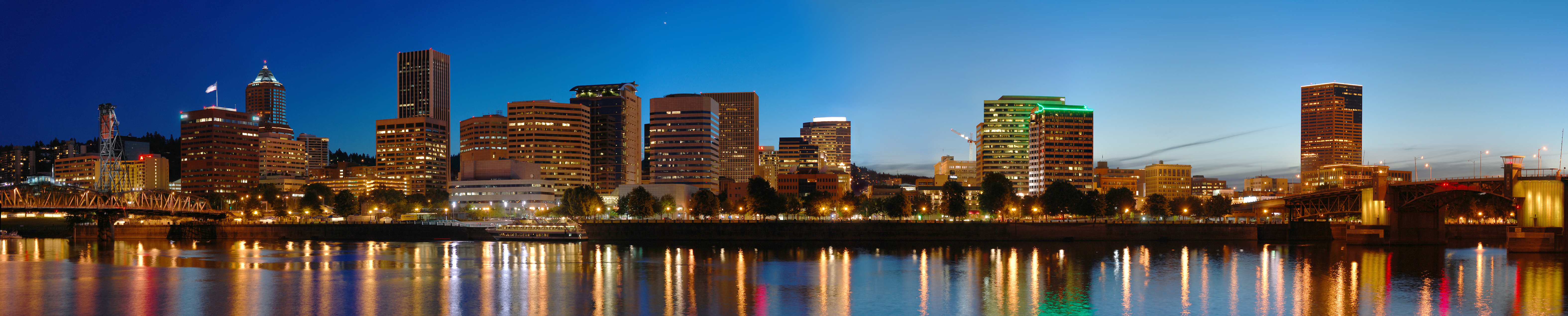 A stitched panorama of downtown Portland, OR at night.